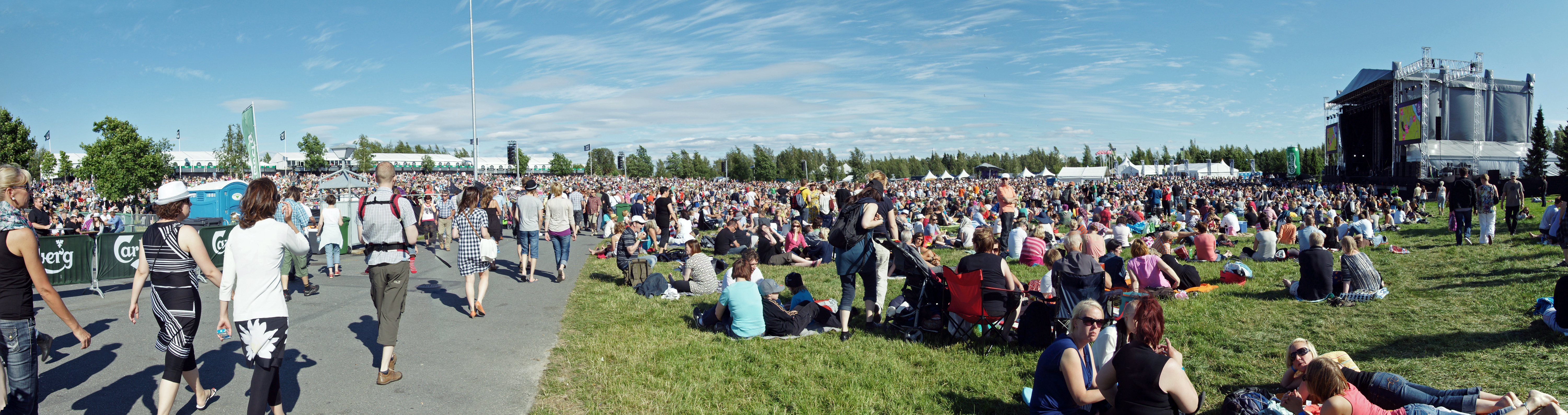 Kirjurinluoto Arena in Pori Jazz 2012.